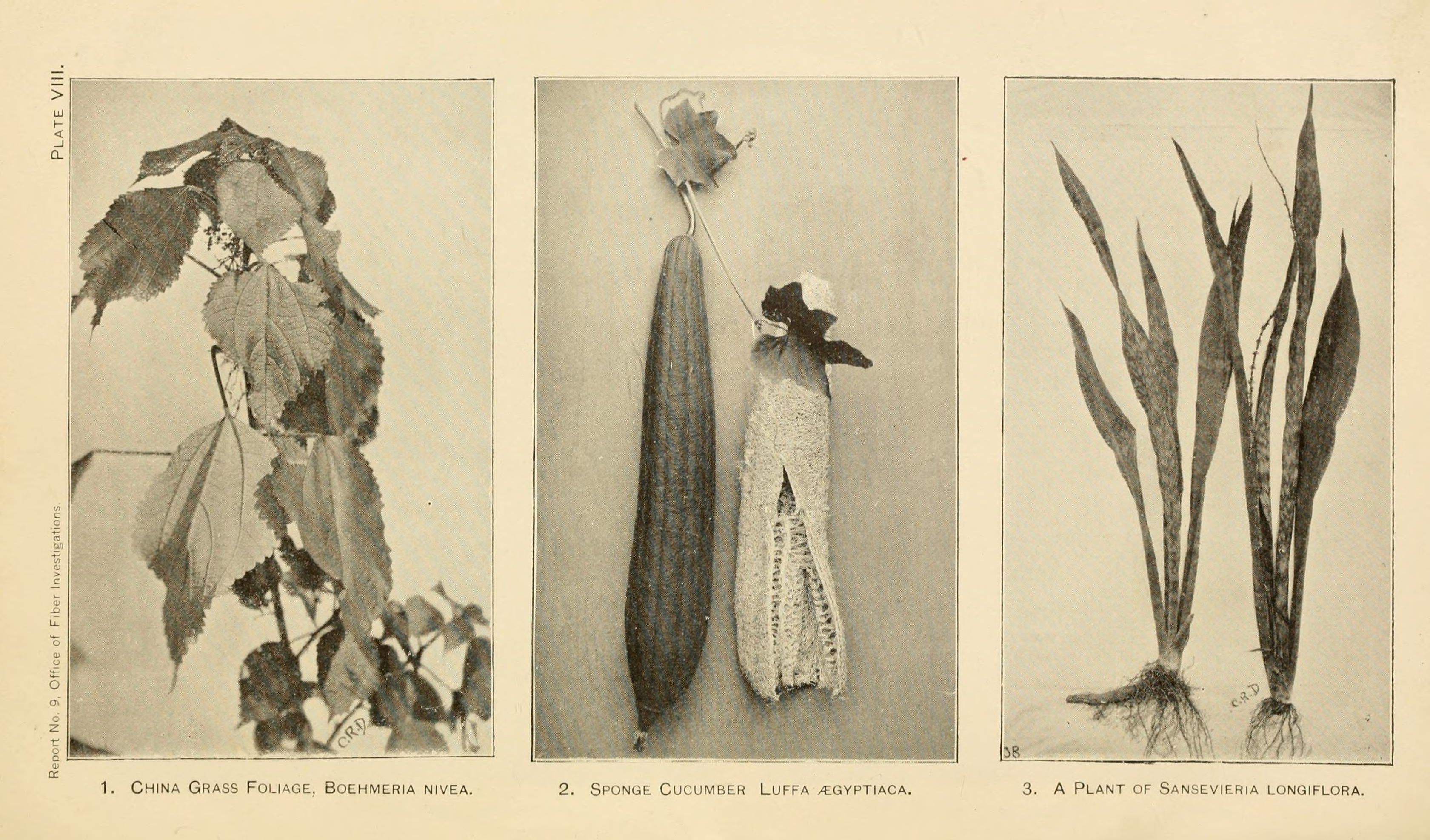 Title: A descriptive catalogue of useful fiber plants of the world : including the structural and economic classifications of fibers Year: 1897 (1890s) Authors: Dodge, Charles Richards, 1847-1918 Subjects: Fibers Publisher: Washington, Govt. print. off. Text Appearing Before Image: Reoorl No 9, Office of Filxr Invpstieatt. Plate VIII. O o Text Appearing After Image: Report No, 9, Office of Fiber Investigations Plate IX.